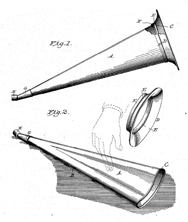 This image is taken from a US patent granted to George L. Hogan in 1901.